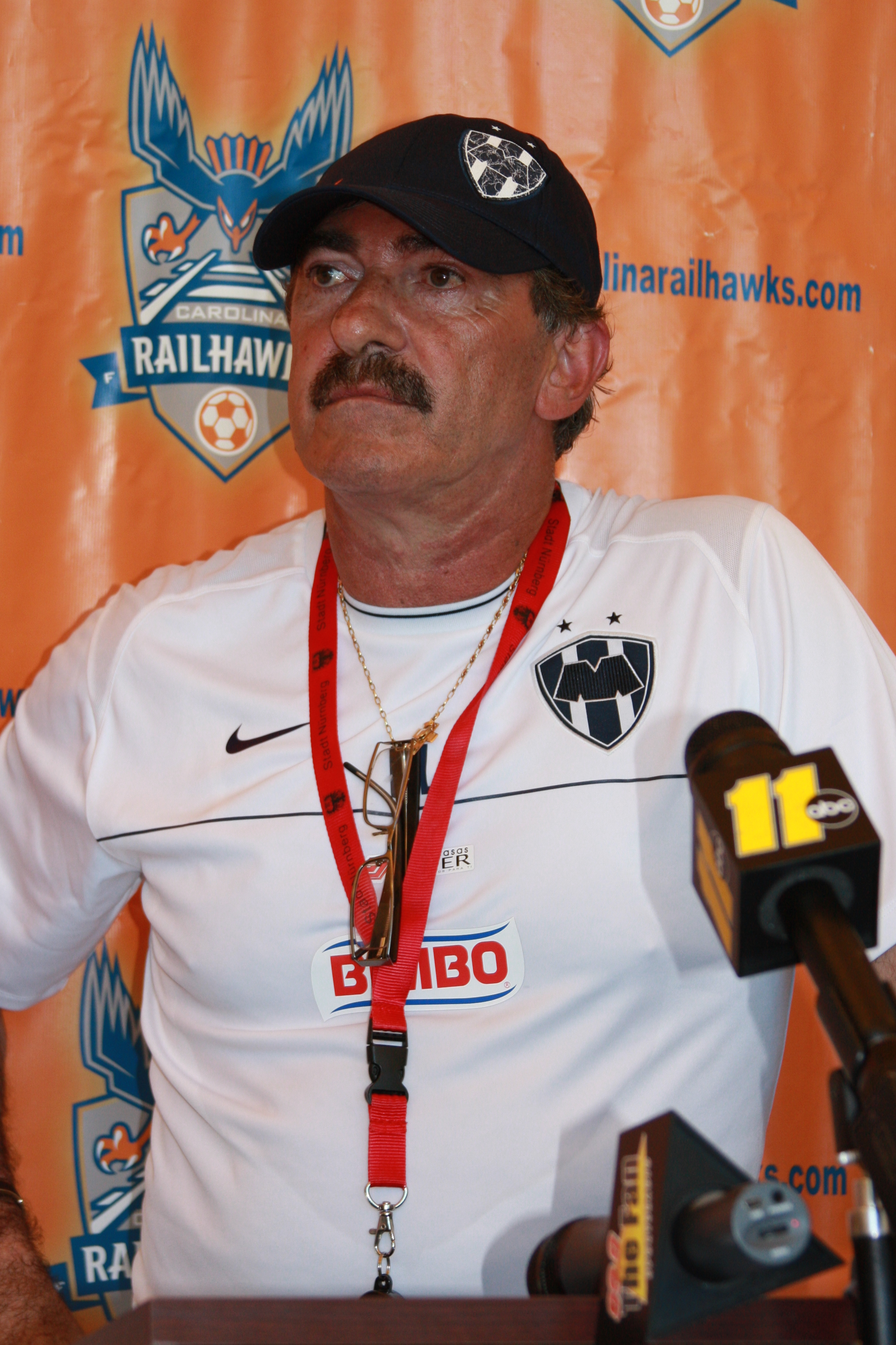 Ricardo Lavolpe at a press conference in North Carolina.